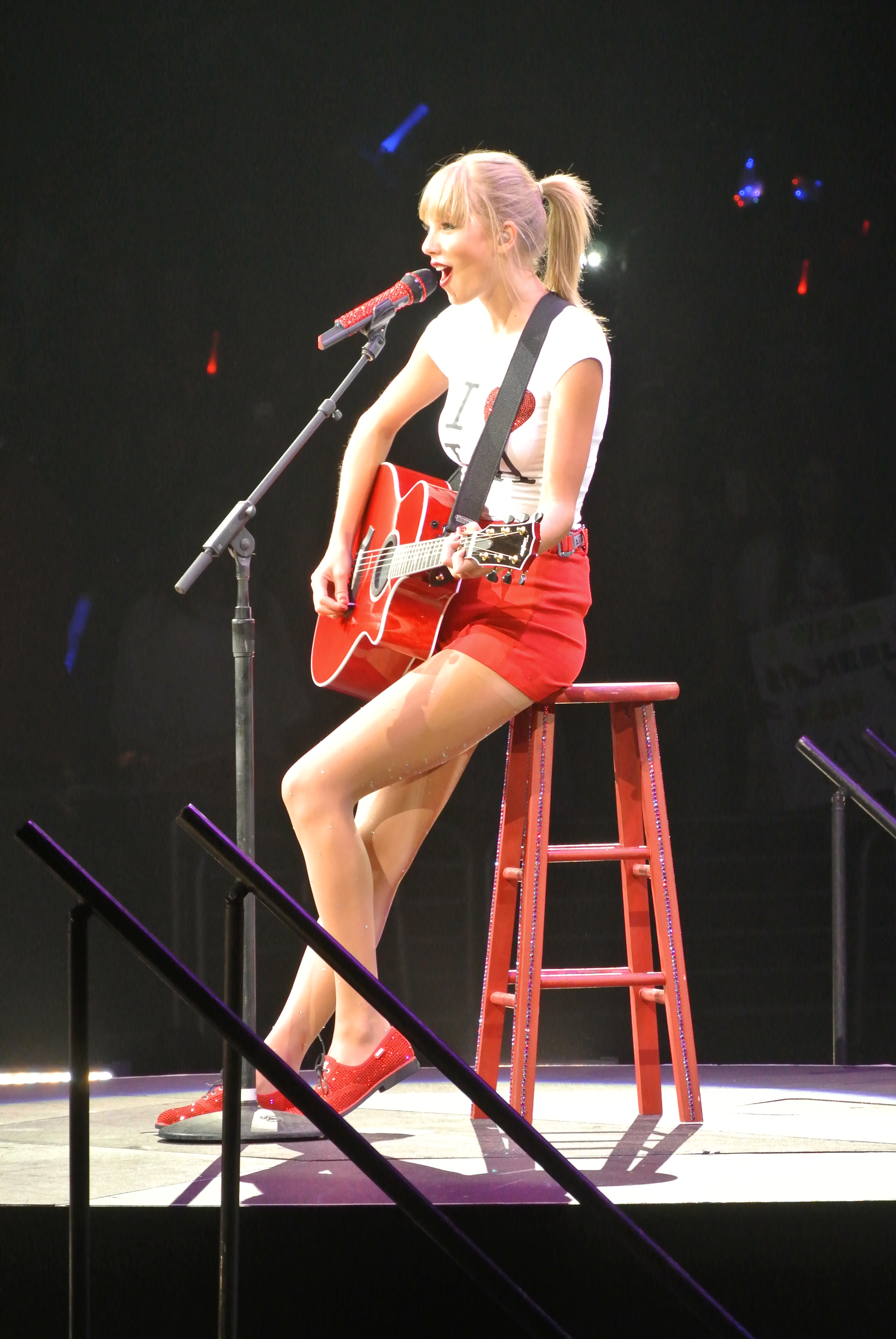 Taylor Swift performing on B-stage during Red Tour in LA